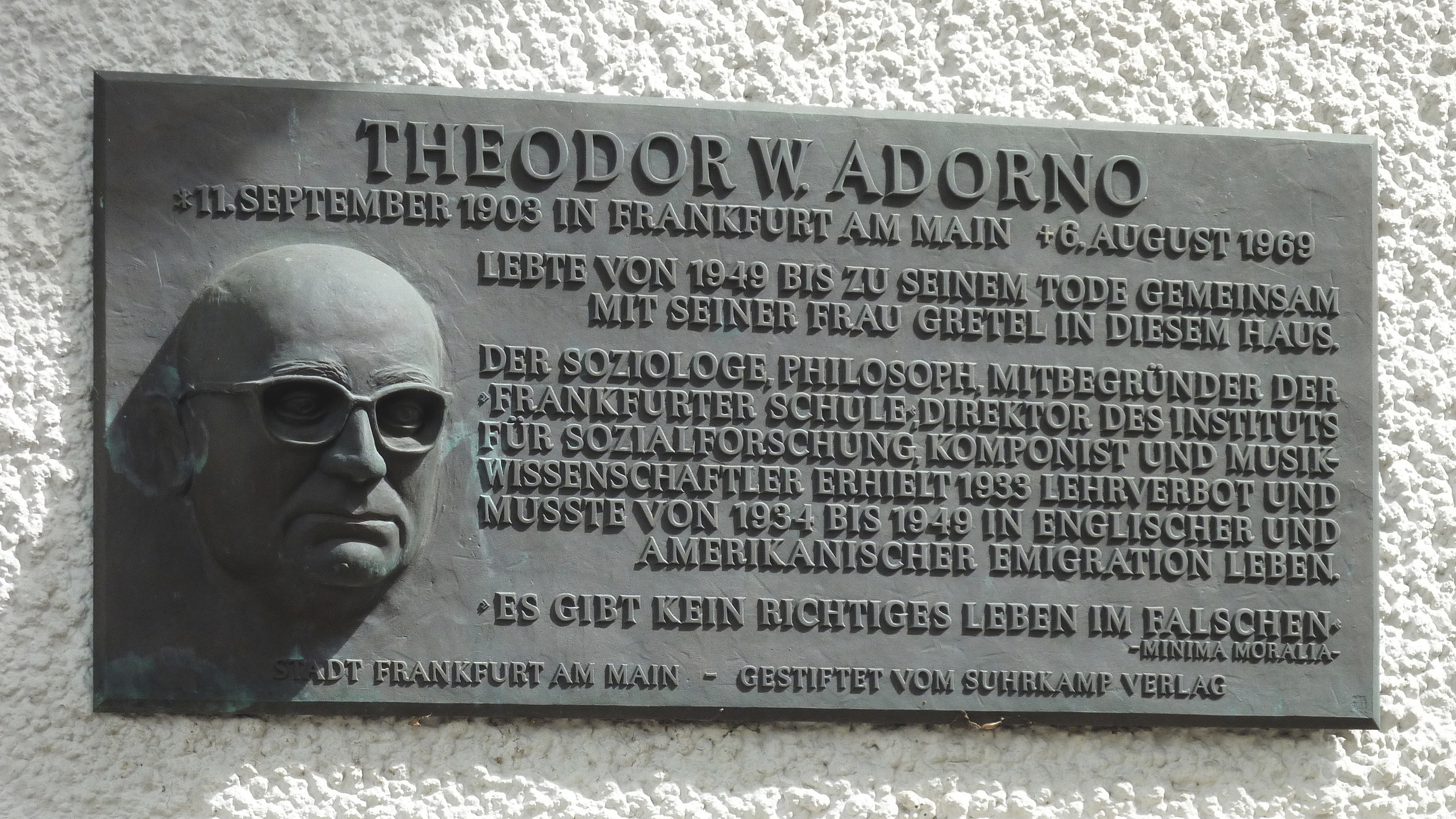 Plaque for Theodor W. Adorno in his house in Kettenhofweg in Frankfurt. Unveiled on 17 November 1994. Bronze plaque with portrait, 50x103 cm, designed by Guenter Maniewski.